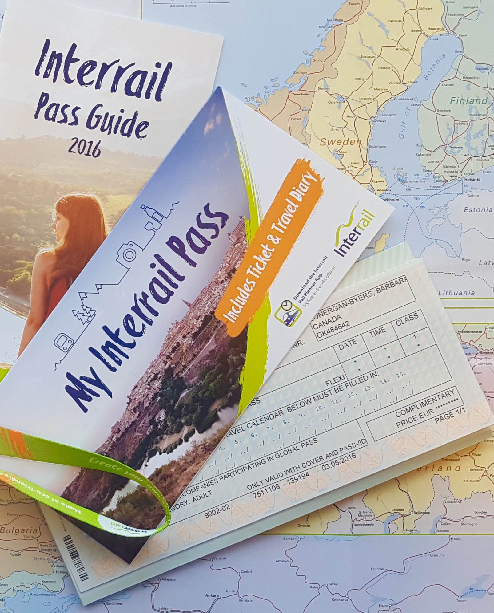 2016 Interrail Pass